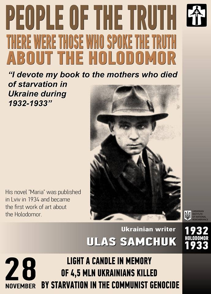 People of truth. There were those who spoke the truth about Holodomor. For the world to know.